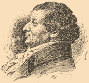 Illustration from Brockhaus and Efron Jewish Encyclopedia (1906—1913)